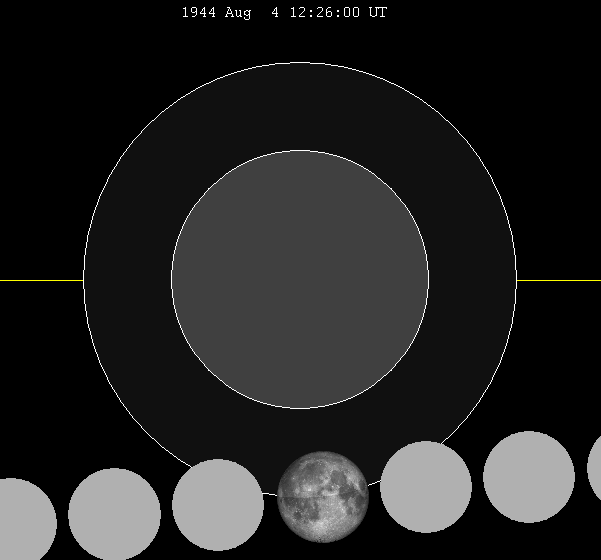 Lunar eclipse chart of moon's path through the earth's shadow. thumb